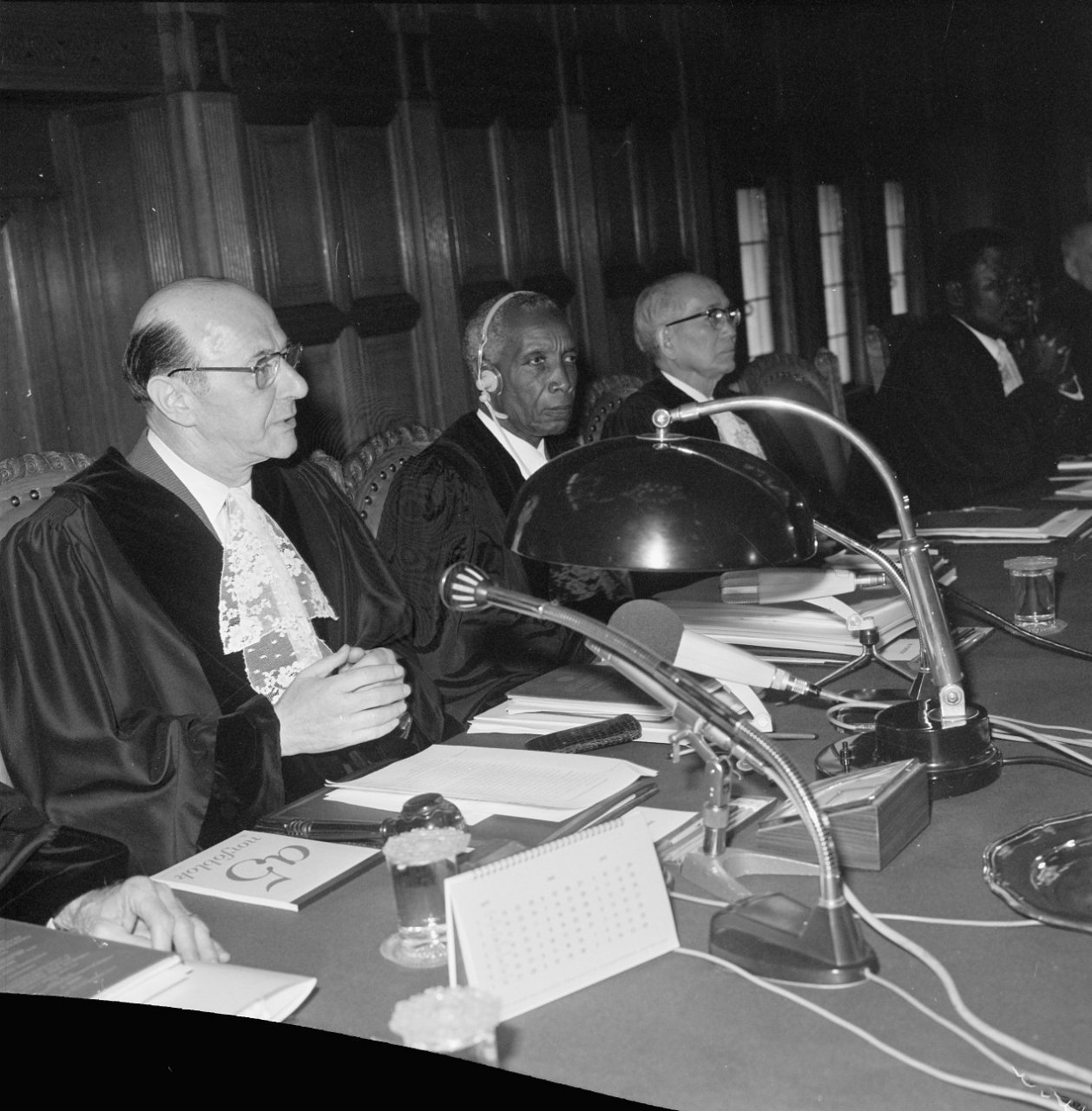 The International Court of Justice in session, 1973; left: Justice Manfred Lachs from Poland